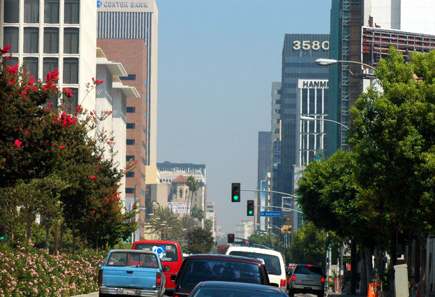 Wilshire Blvd. in Wilshire Center (Koreatown), Los Angeles.